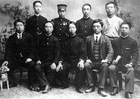 Huaxing hui leaders in Tokyo